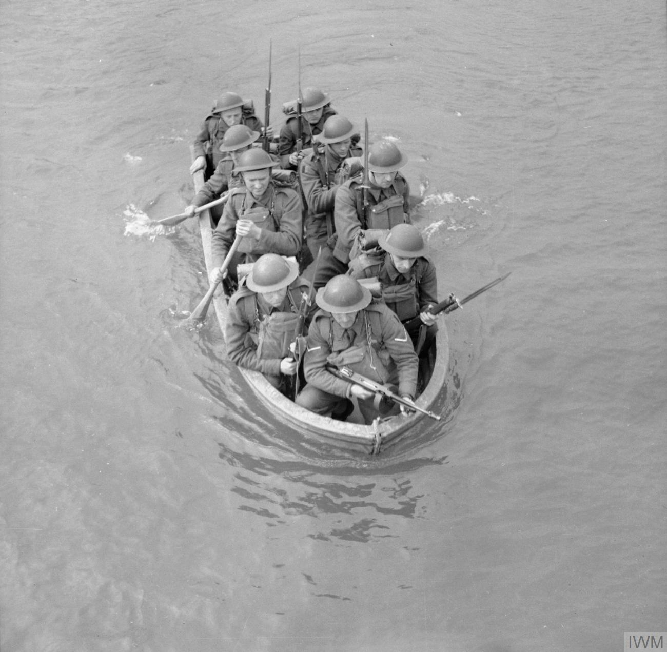 The British Army in the United Kingdom 1939-45 An infantry section from the Royal Sussex Regiment stage a river crossing in a collapsible boat, Chichester, 25 March 1941.